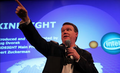 Doug Dvorak Presenting a Keynote to Intel